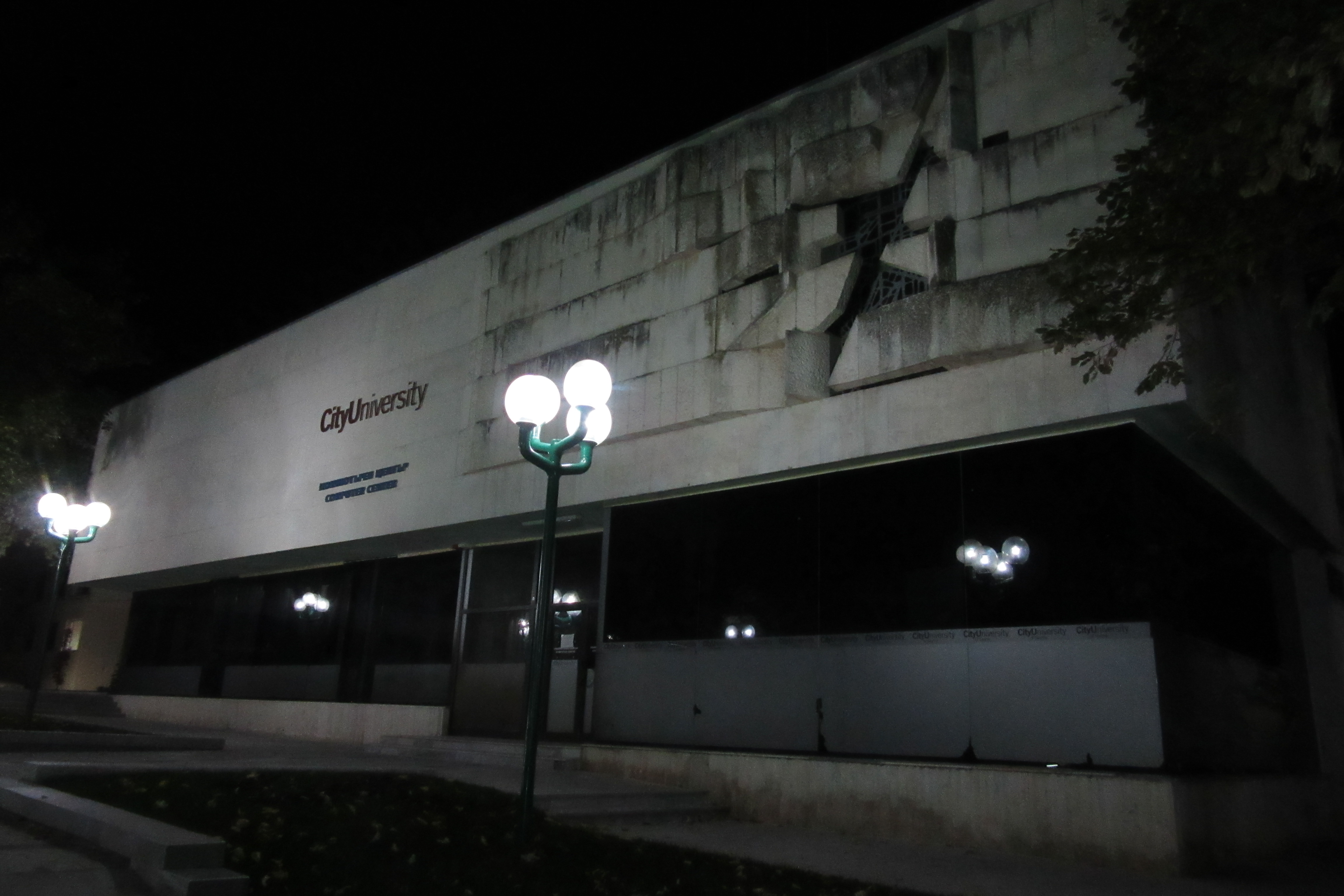 The Pravets City University Hall